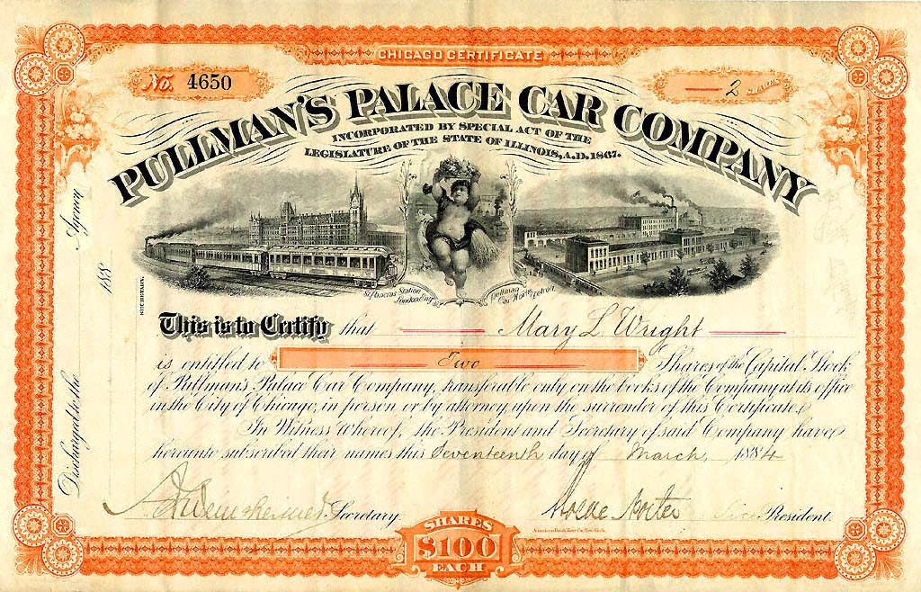 1884 certificate for two shares of capital stock in Pullman’s Palace Car Company signed by its Vice President, General Horace Porter (1837-1921), the onetime Aide-de-Camp to General Ulysses S. Grant with whom he attended at the surrender of Gen. Robert E. Lee at Appomattox Court House on April 9, 1865. The Cooper Collection of US Railroad History